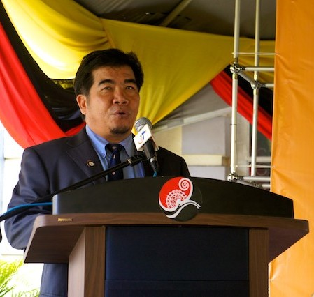 Ipoi Datan, the director of Sarawak State Museum, is giving a speech during the launching of Longhouse Cultural Gallery in collaboration with Sarawak Energy Berhad.